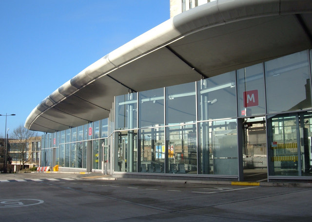 Oldham Bus Station Situated on West Street opposite the Civic Centre. Pictured is the smaller of the two set of bus stands - this one housing stands K. L and M.